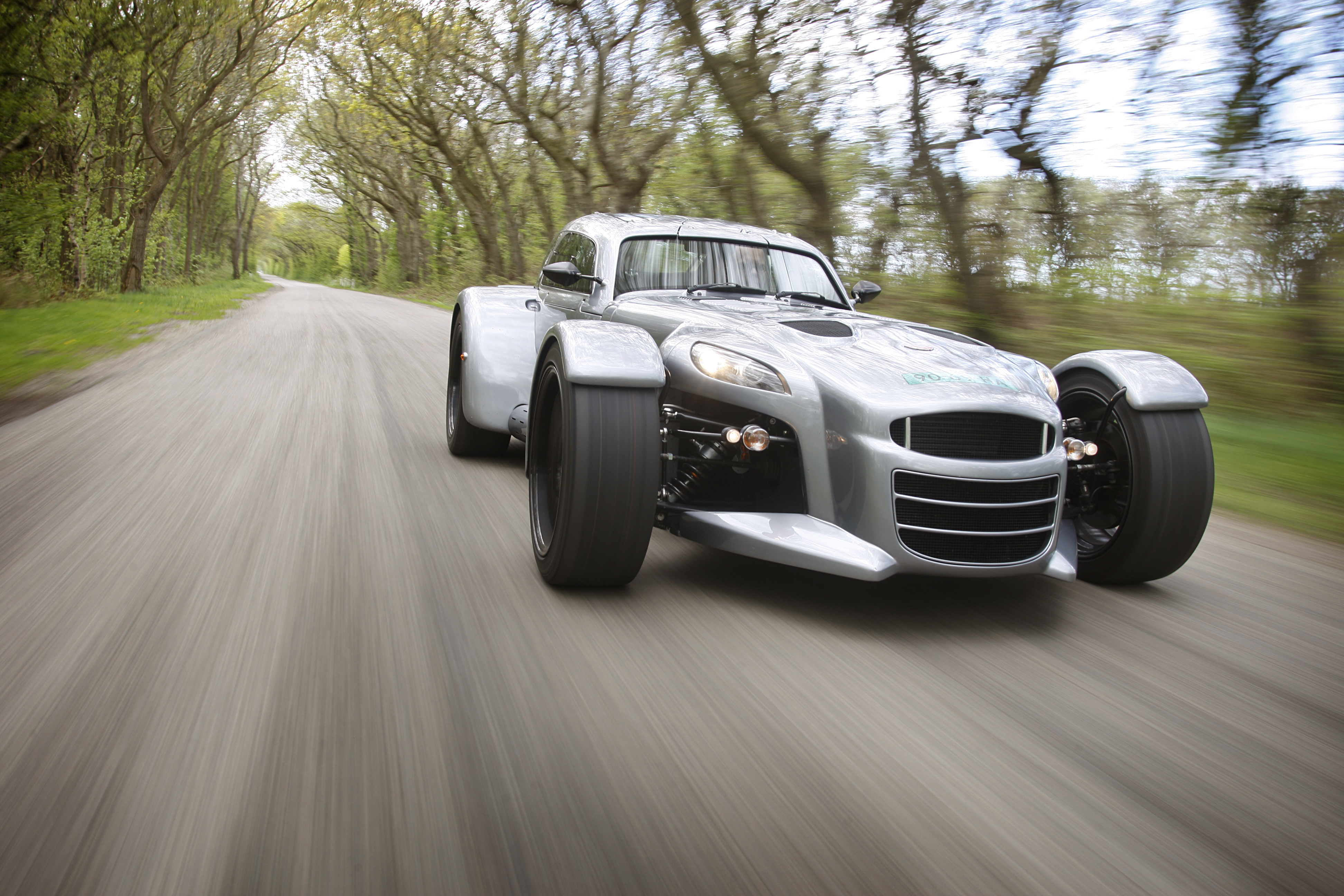 Meet the first Donkervoort with a hard-top roof. A full-blooded GT with two personalities packaged in an exiting design. On the one hand, there is the purebred high-tech racer, designed from a passion for motor racing and built on the basis of 30 years experience on the European tracks. The car that you use to drive to the track in order to take part in the race and then drive home again afterwards, with the cup you won in the back. On the other hand, the personality of a stylish ‘Grand Tourer’ that takes you to your holiday destination with ease in just a couple of hours and conjures up the romantic feeling of the fast GTs of yesteryear. The D8 GT combines the best of both worlds in an elegant body, built and finished to perfection with outstanding workmanship by dedicated craftsmen. The semi gullwing doors provide spacious access to the interior and your luggage is put in through the raised hinged rear window. The D8 GT has virtually all new technology compared to the open model of the D8. In particular, all necessary modifications have been made under the skin. The wheel suspension has been further adapted for even better handling characteristics, the track widened by no less than 8 centimetres, larger, special brakes were developed by the Italian firm Tarox for maximum speed reduction and it is fitted with 17 inch wide alloy wheels specially made for the D8 GT by the Japanese brand Rays. All these efforts have not been for nothing: weighing 650 kilos, the D8 GT is the world’s lightest GT. The use of carbon fibre has contributed greatly: the entire roof, the entire rear of the car as well as the doors and fenders are made of this high-tech material. It makes the D8 GT amazingly torque rigid and increases passive safety. Sets a new standard in ultra light super cars.